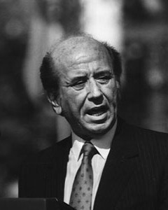 President Carlos Andrés Pérez appears with President George Bush (senior) during a visit to Washington